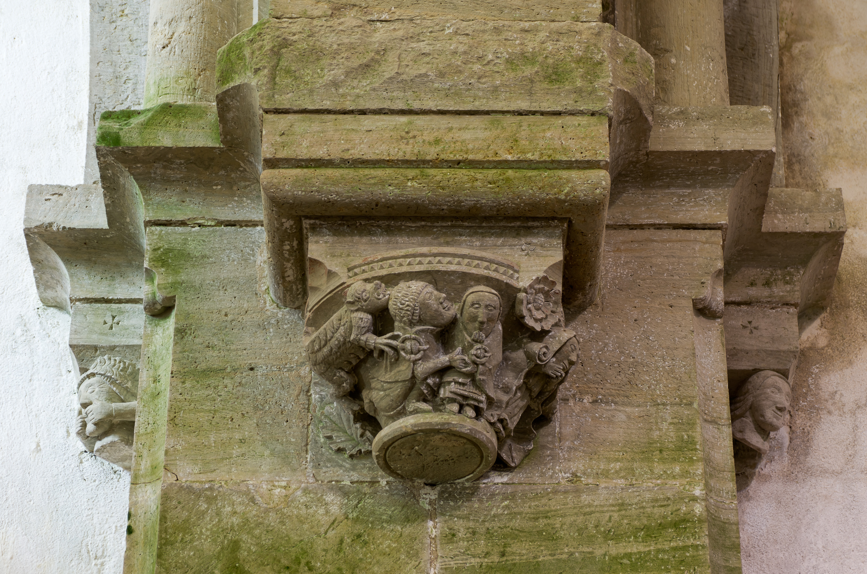 Corbel on the north wall in Karja church